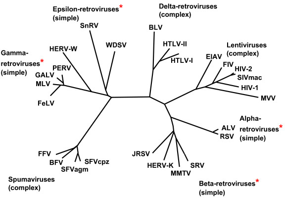 Phylogeny of Retroviruses; genera that include endogenous genomes are marked with an asterisk.